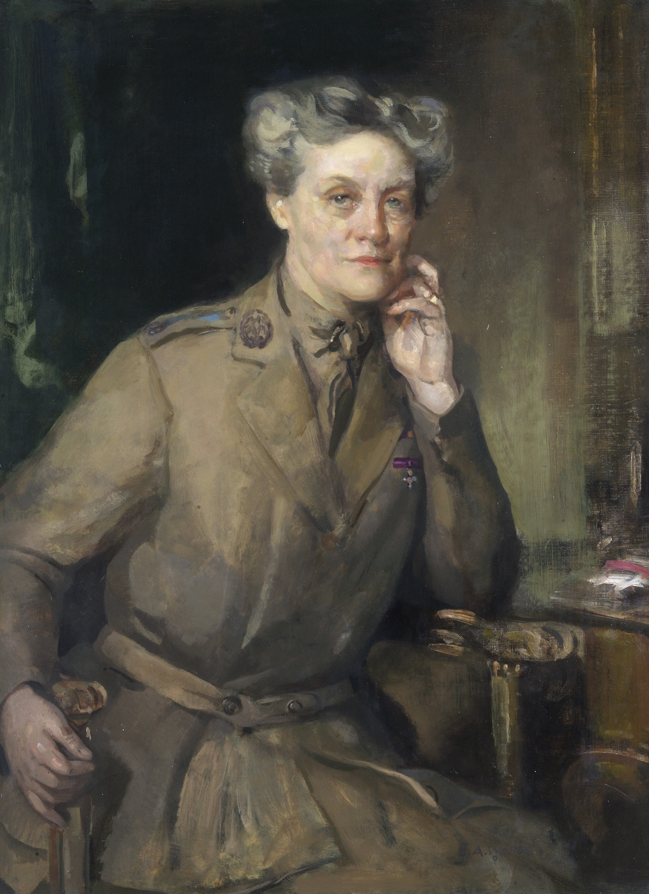 Mrs Chalmers Watson, Cbe, Director of Qmaac image: A half length portrait of Chalmers Watson, wearing the uniform of Queen Mary's Auxiliary Army Corps. She is seated and rests the elbow of her left arm on a desk.